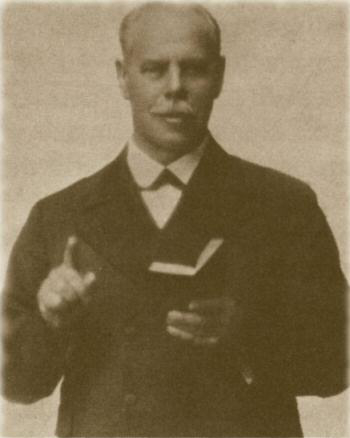 Smith Wigglesworth while preaching, always with his beloved Bible